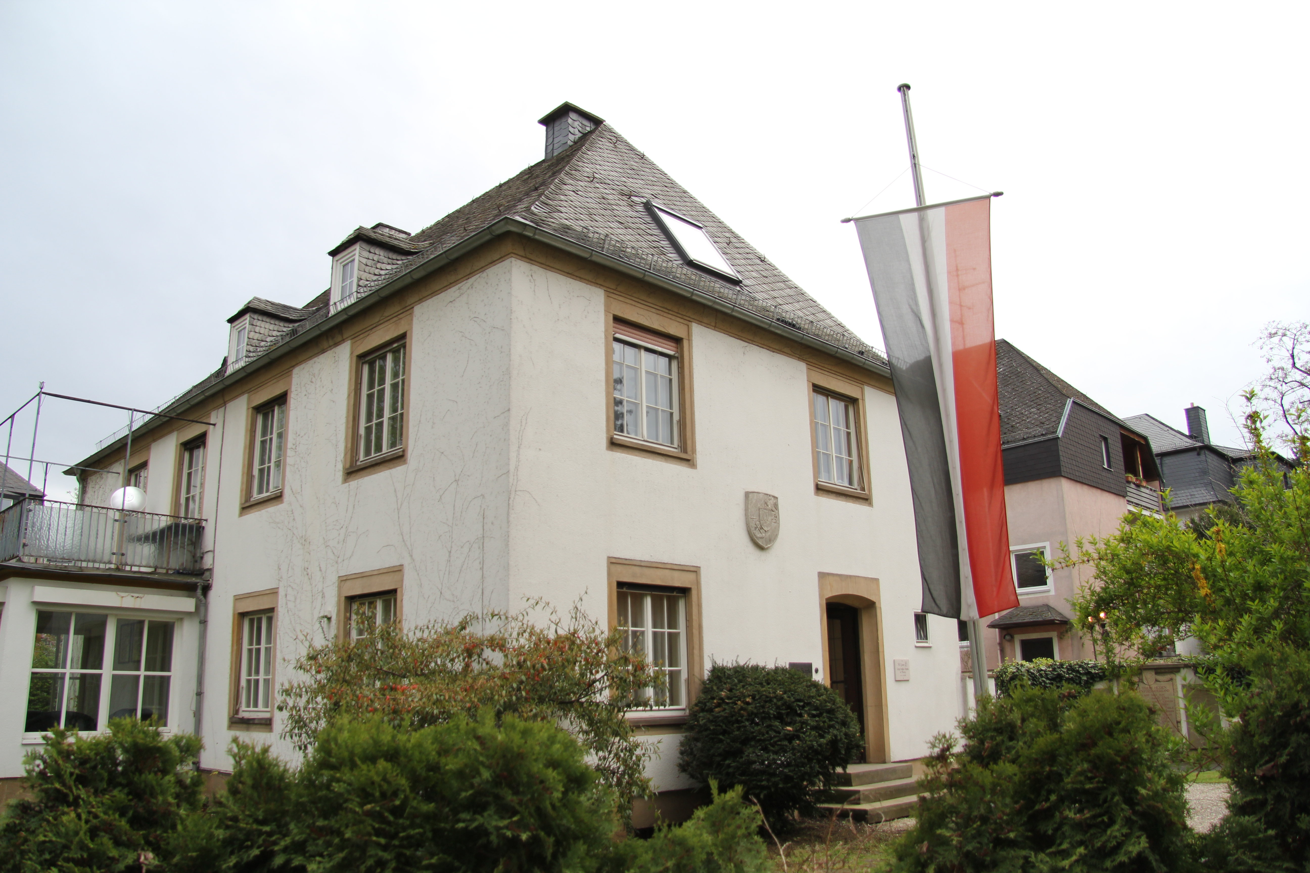 House of student fraternity Corps Hassia-Gießen zu Mainz in Mainz/Germany, Drususwall 76